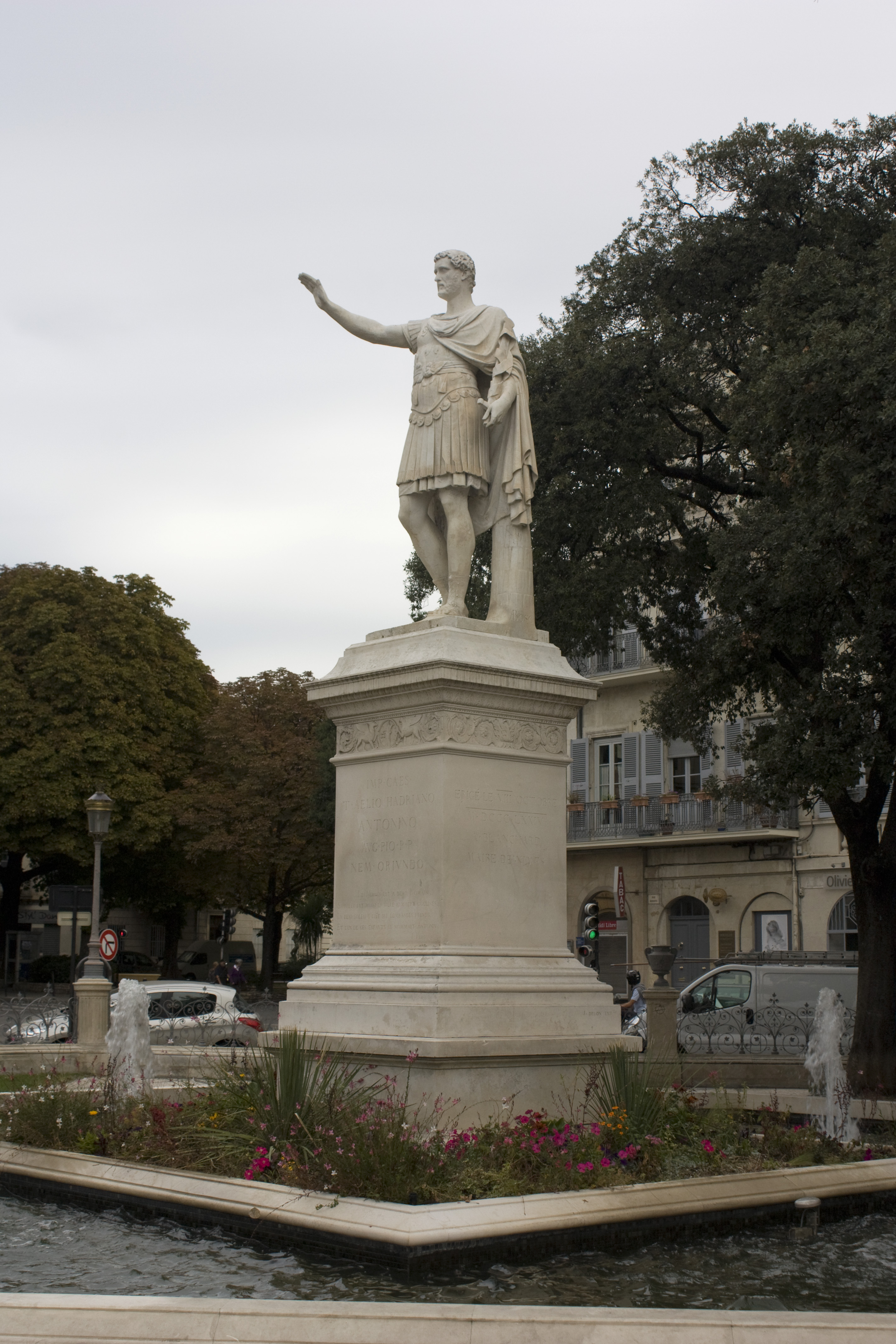 Antoninus Pius, a Roman Emperor native of Nemausus.